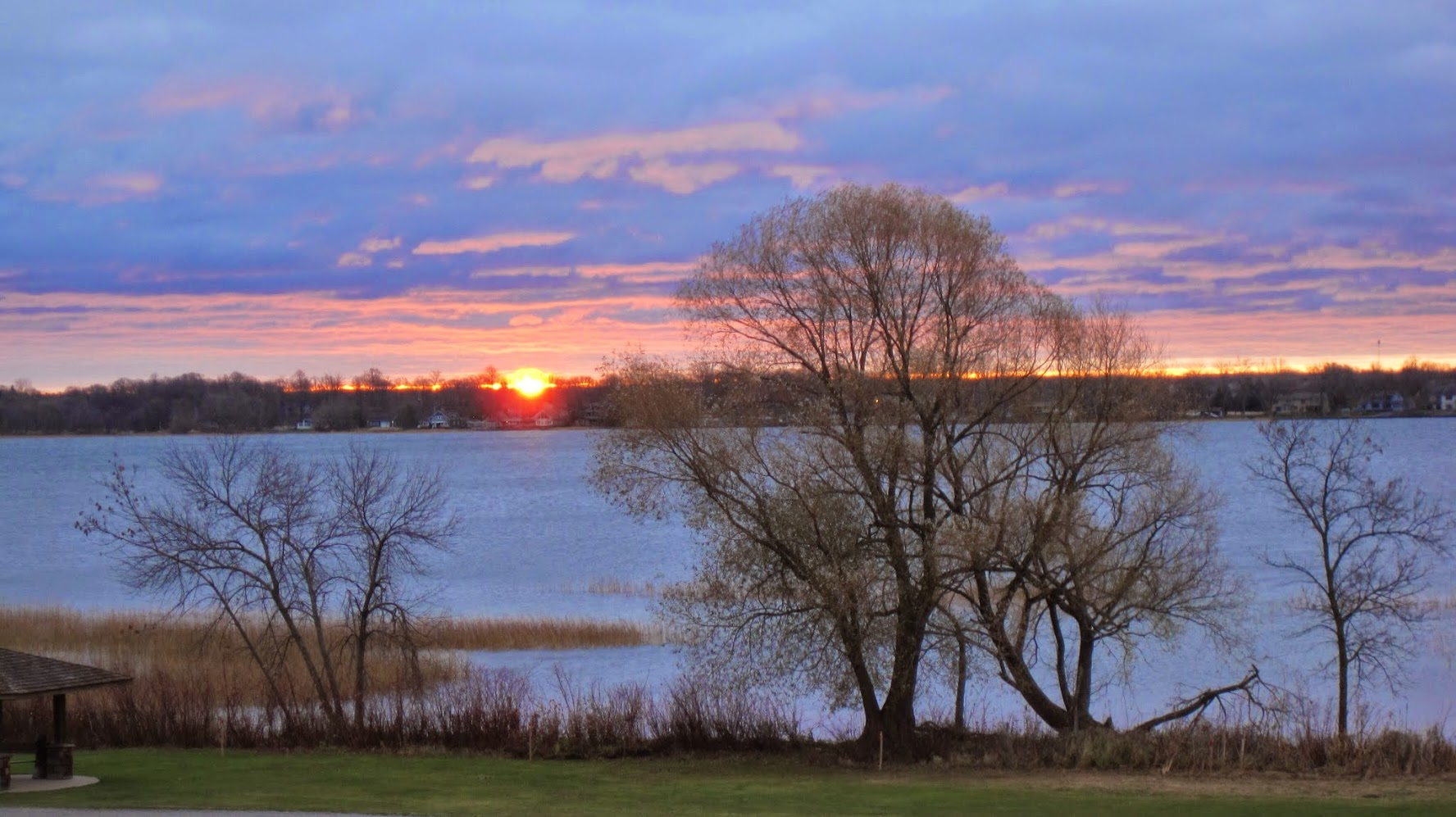 Sunrise in lake Darling MN. Taken from Arrowhead resort, 2015.